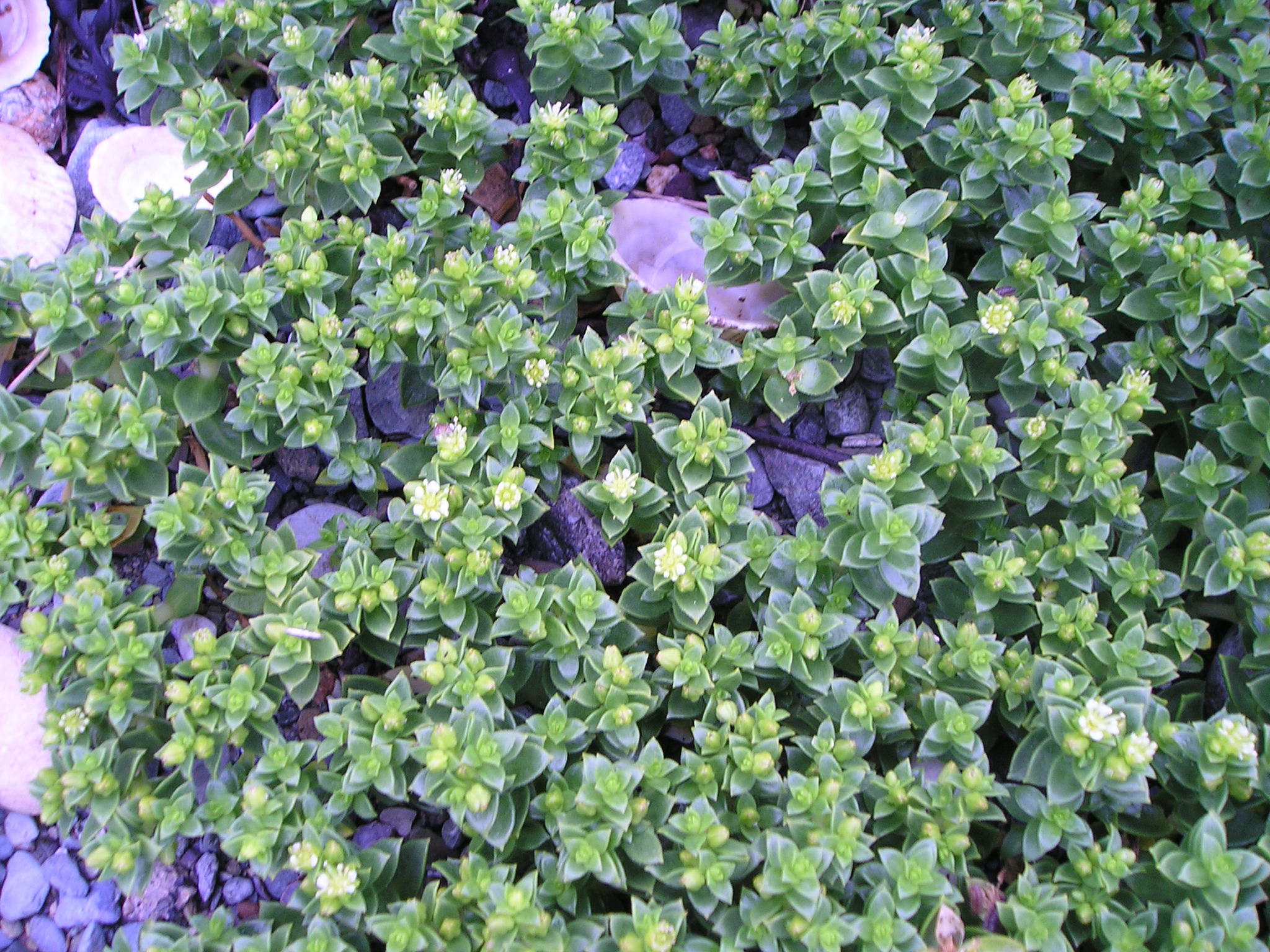 Honkenya peploides on shingle, Anglesey